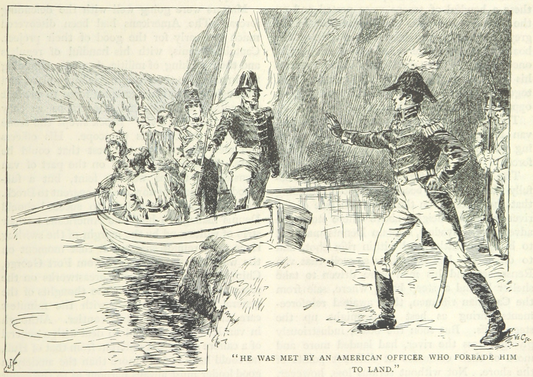 Major Thomas Evans (in boat) goes to attempt a prisoner exchange before the 1812 Battle of Queenston Heights. The encounter would clue Evans in that an American attack was planned for 13 October.